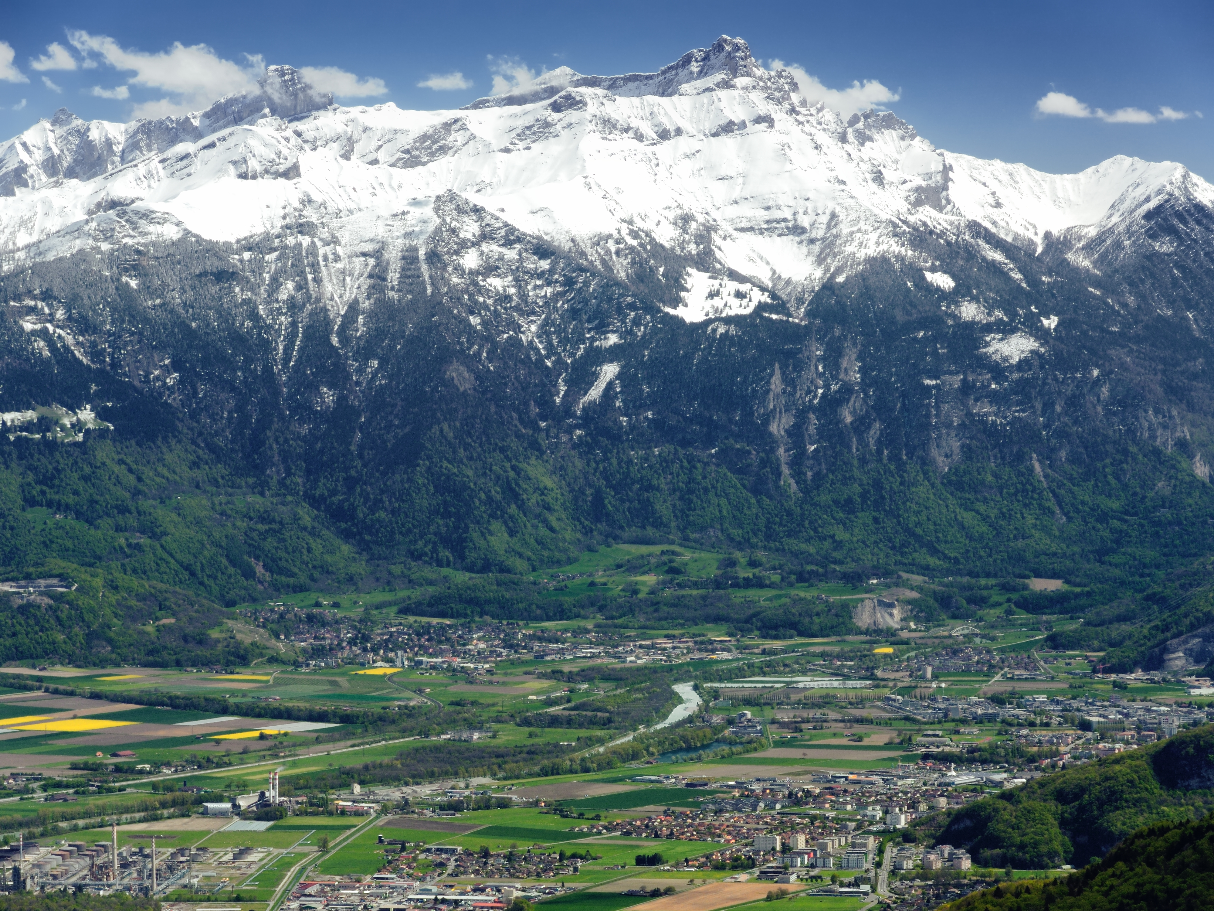 The Chablais region around Monthey (far right), viewed from above Torgon. The Rhone marks the border between the Vaud (background) and Valais (foreground) parts of the Chablais. The region is overlooked by the massif of the Dent de Morcles. On the bottom left is the Collombey refinery complex.